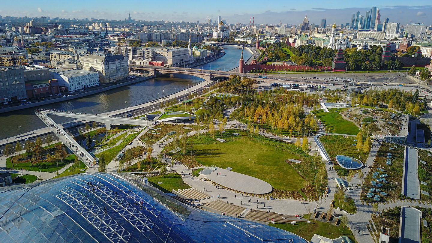 Zaryadye Park in Moscow